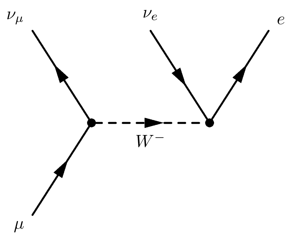 The Feynman Diagram of the muon decay